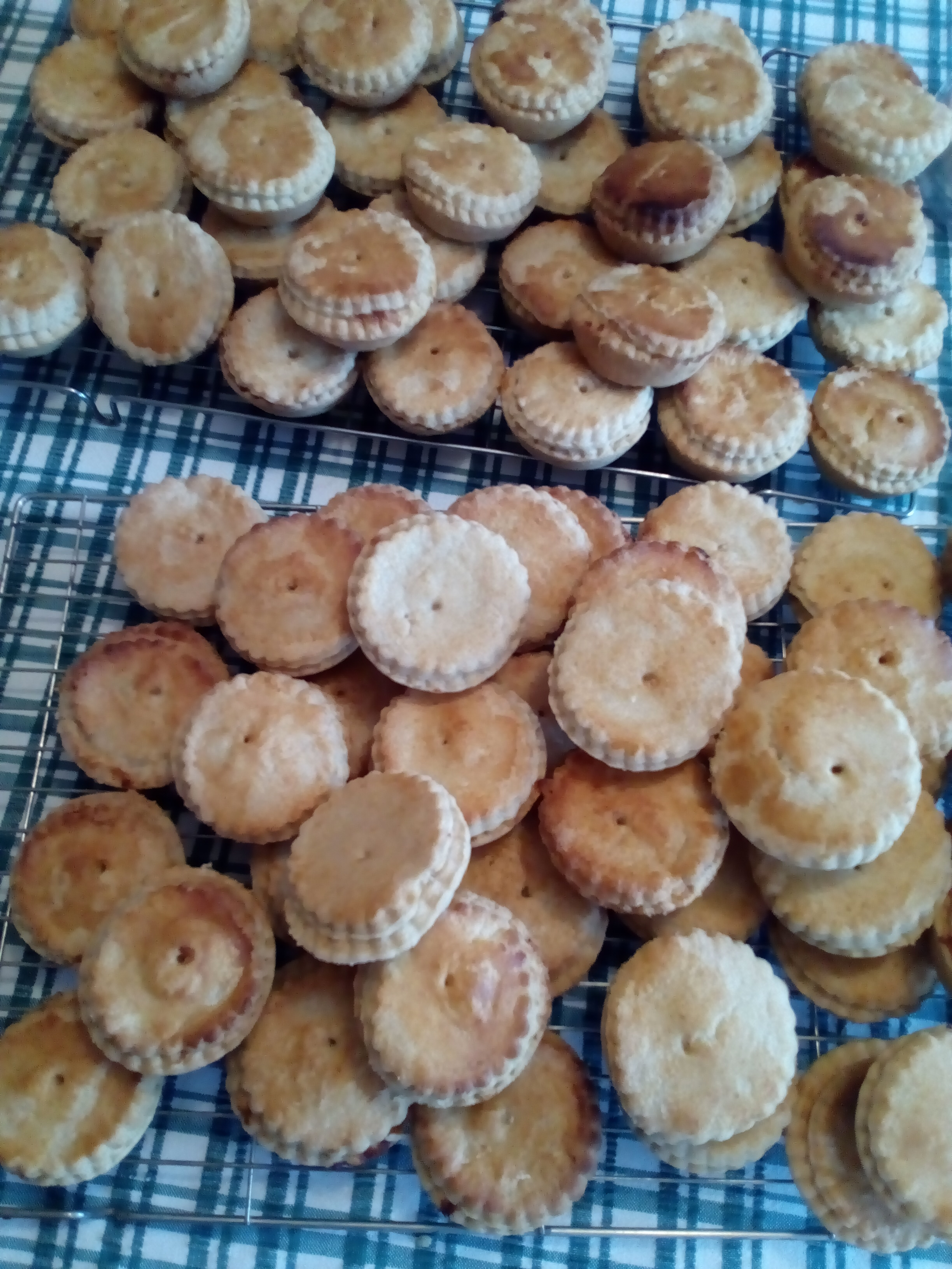 A batch of home-made mince pies, fresh from the oven, made ready for Christmas 2017, by the photographer's mother.